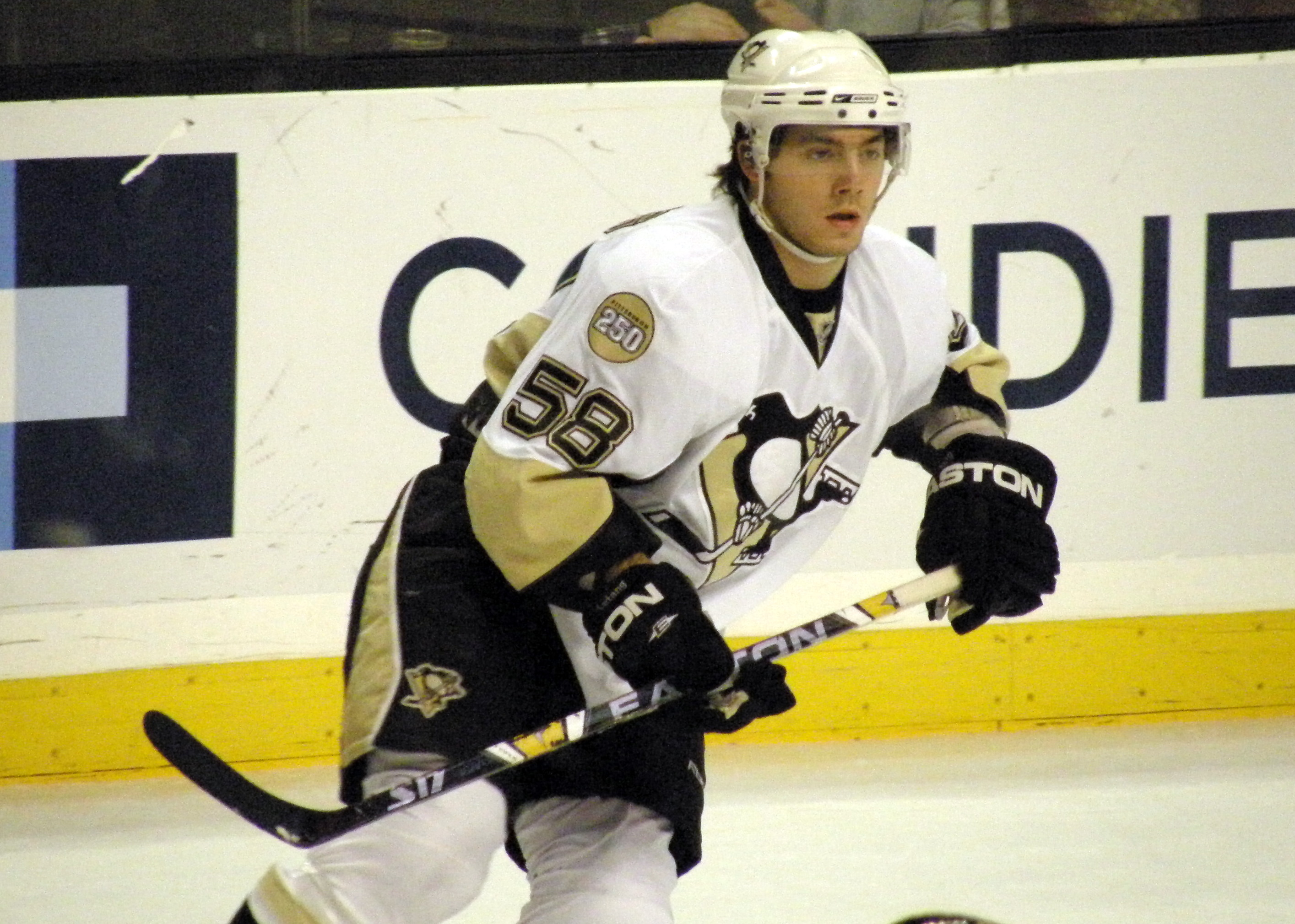 Kristopher Letang